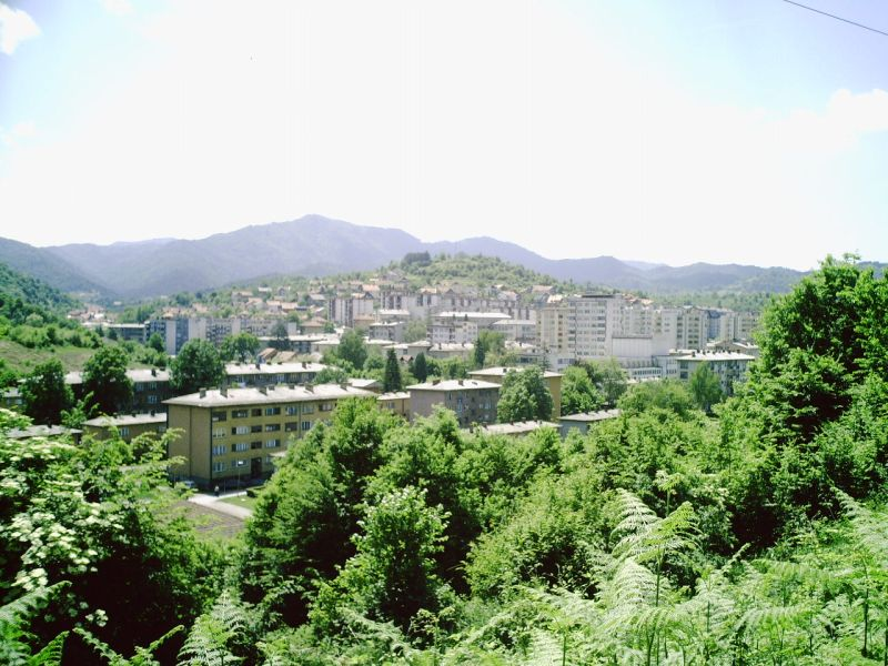 Panoramic view of Banovići, Bosnia and Herzegovina